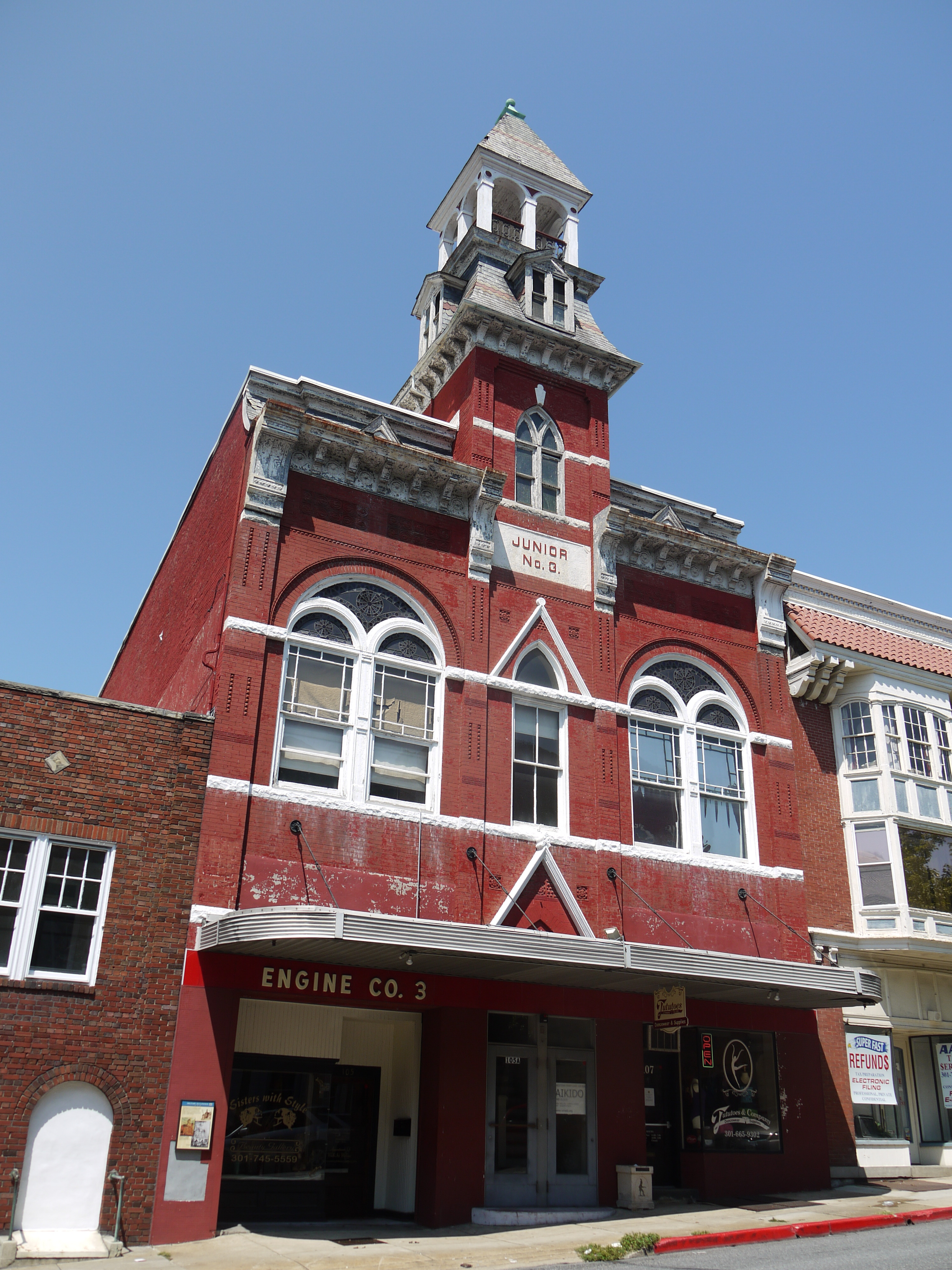 Building (looks to be a former fire house) within the NRHP-listed Hagerstown Historic District in Hagerstown, Maryland. Seen in this photo from the Maryland Historical Trust.